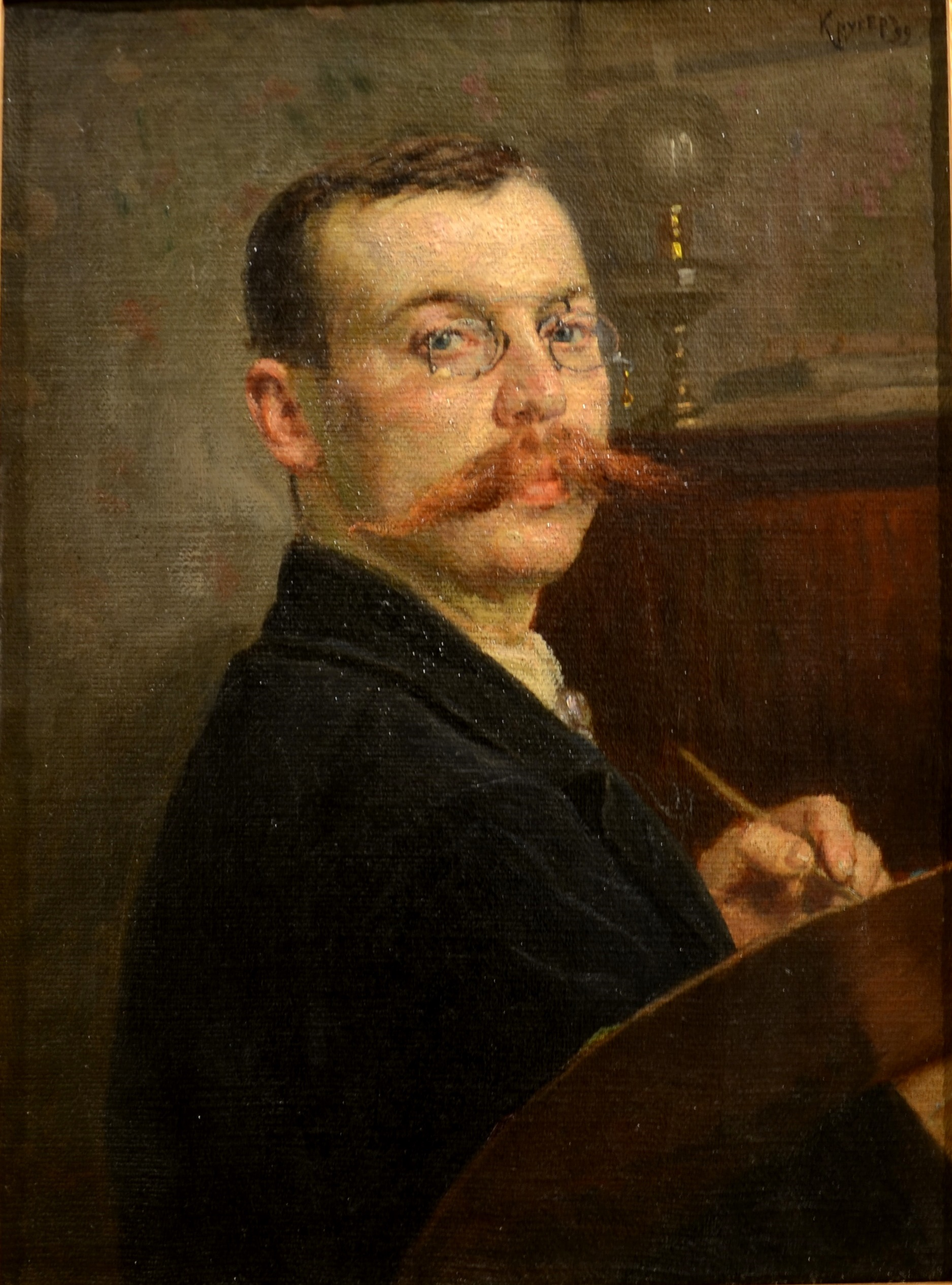 Jacob Kruger. Self-Portrait, 1899. Oil on canvas. Belarusian National Arts Museum